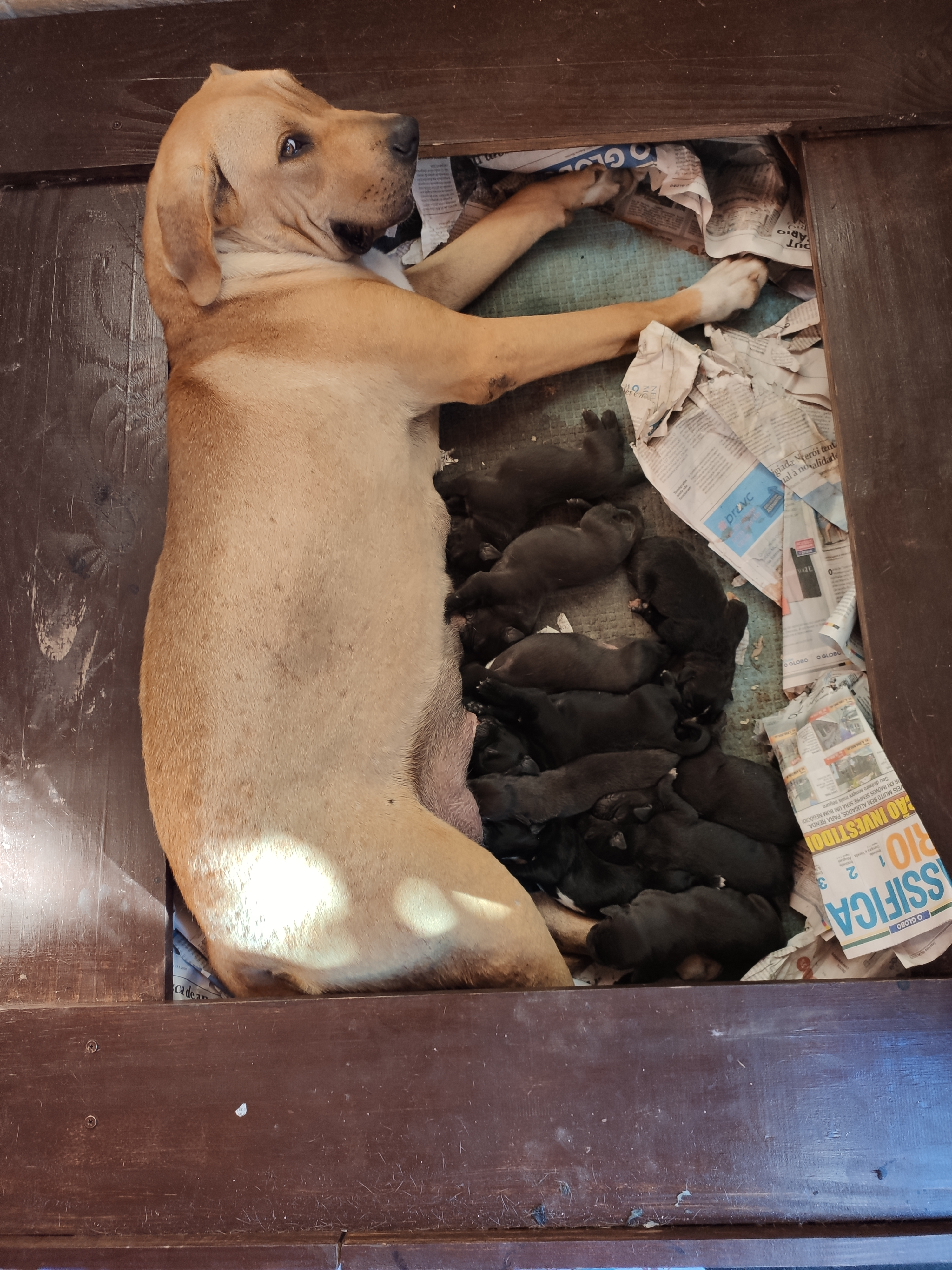 Filhotes